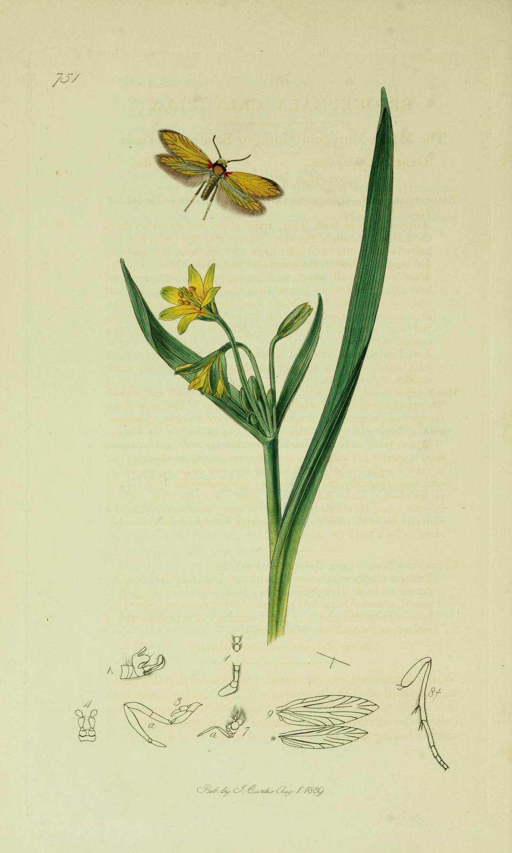 An illustration from British Entomology by John Curtis. Lepidoptera: Eriocephala calthella or Micropteryx calthella (Marsh Marygold Moth).